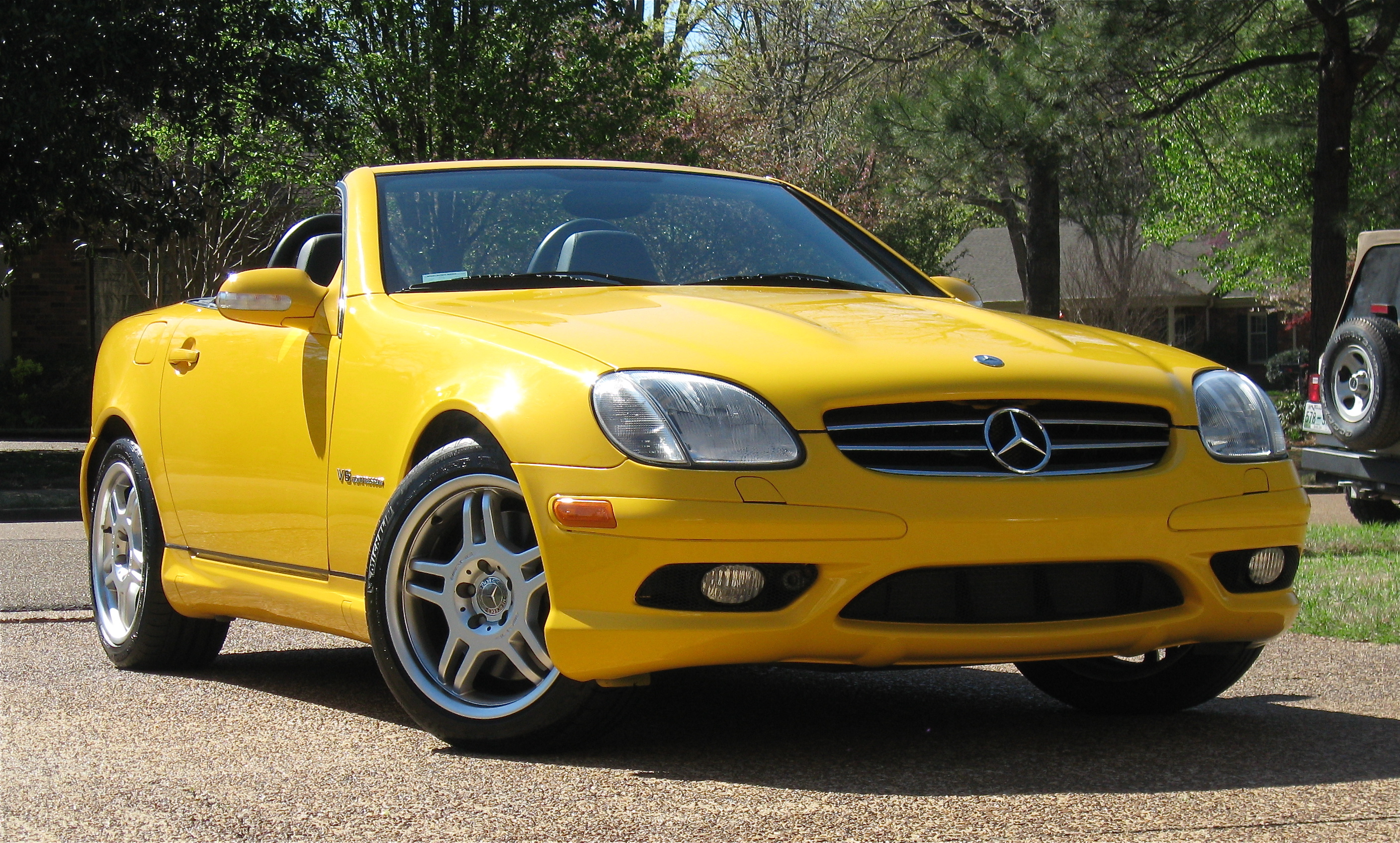 Mercedes-Benz SLK 32 AMG open top in Yellow